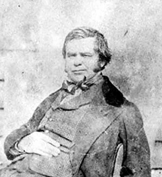 George Thomas Clark (1809–1898), by Arthur Pendarves Vivian, 1854